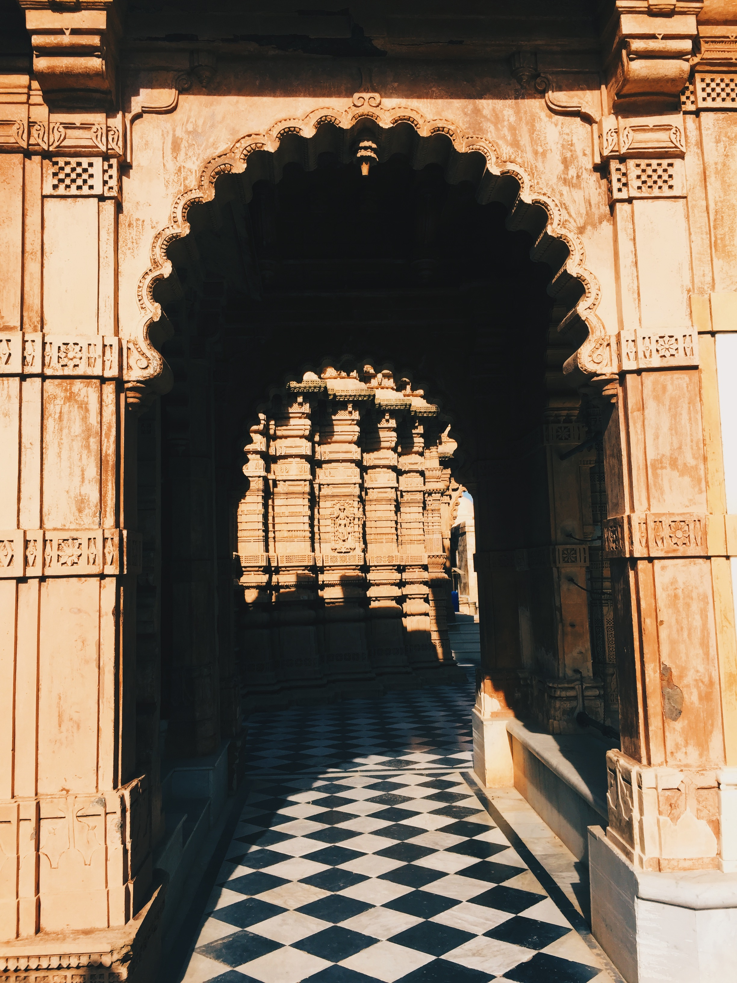 A glimpse at the unbelievably beautiful temples in Palitana, Gujarat